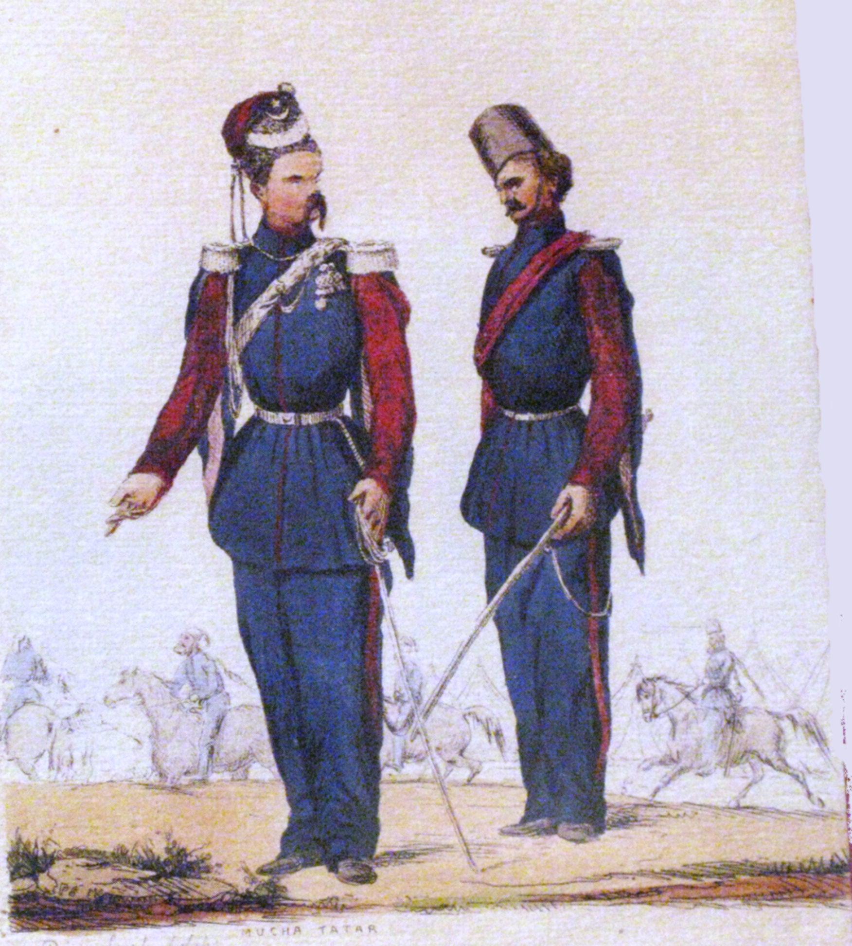 1st Regiment of Polish Sultan Cossacks